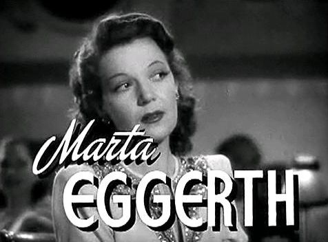 Screenshot of Marta Eggerth from the trailer for the film Presenting Lily Mars, 1943